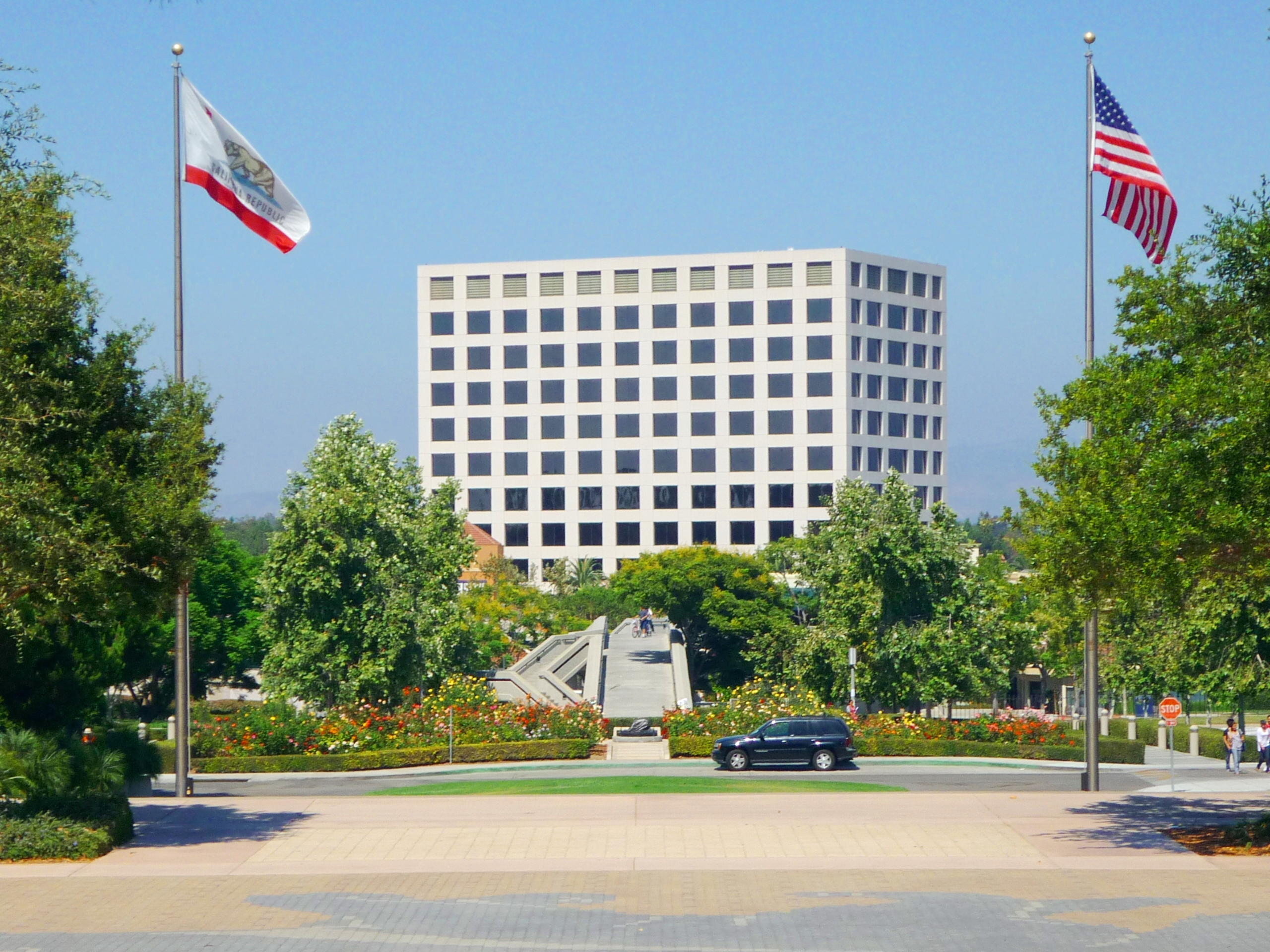 University of California, Irvine's main circle, and view of the University Center. A scene familiar to many people of the UCI.